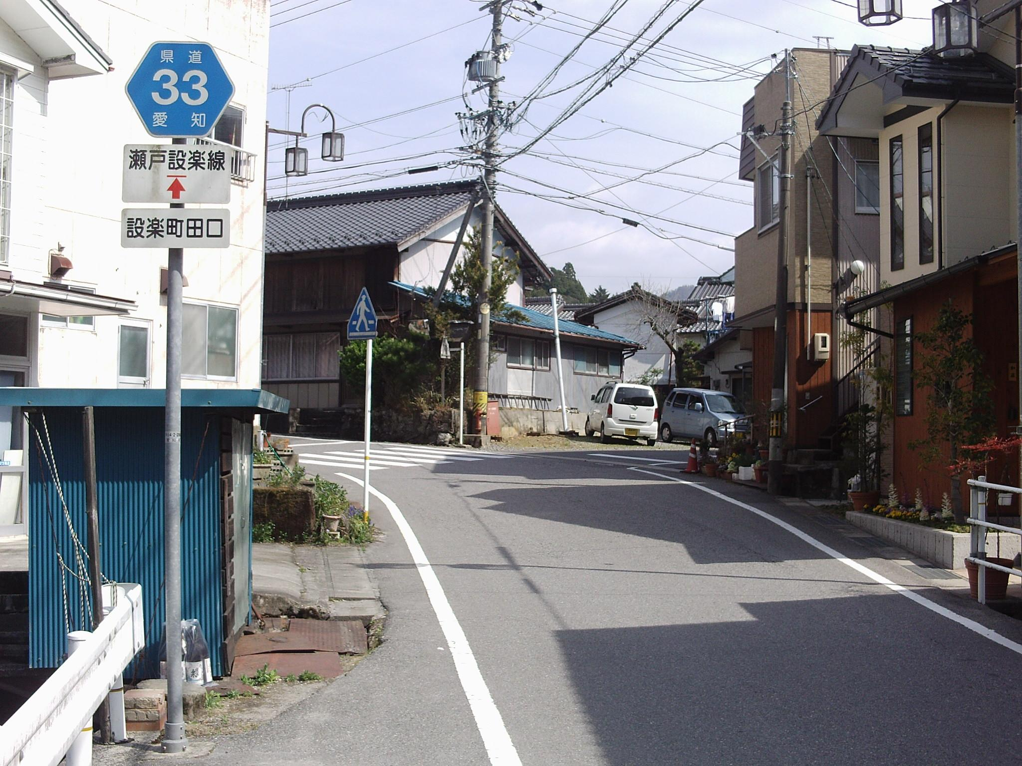 Aichi prefectural road No.33 in Taguchi, Shitara-cho, Kitashitara-gun, Aichi.